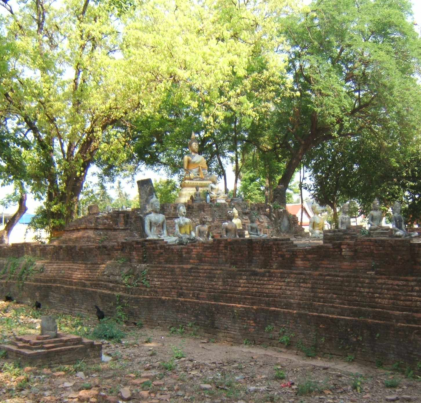 Detail from Wat Aranyik, Phitsanulok, Thailand